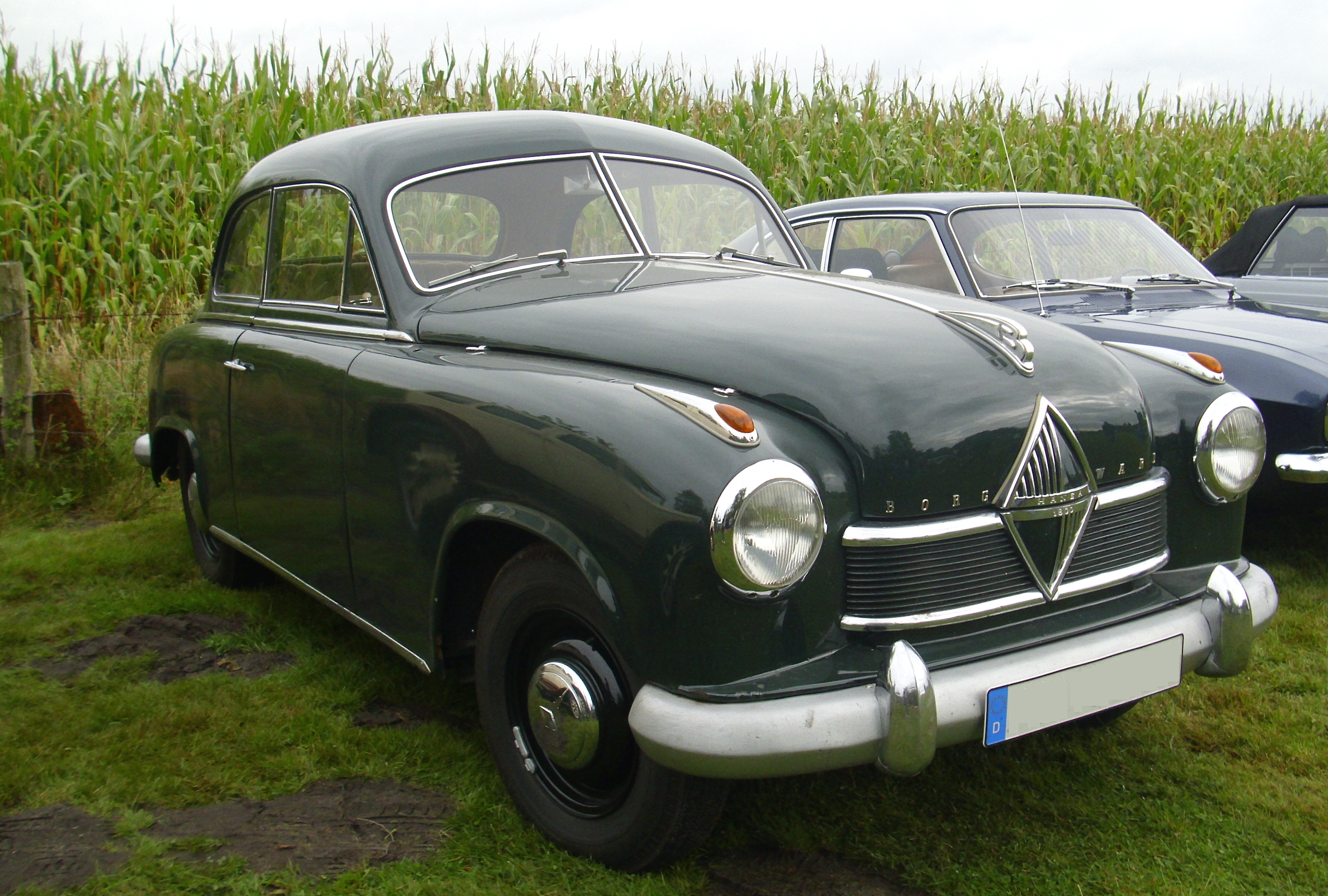 Borgward Hansa 1800 beim Oldtimertreffen auf dem Gelände des Speichenmuseums in Klein Offenseth-Sparrieshoop.